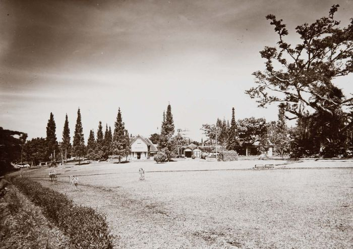 Buitenzorg's Kota Paris area